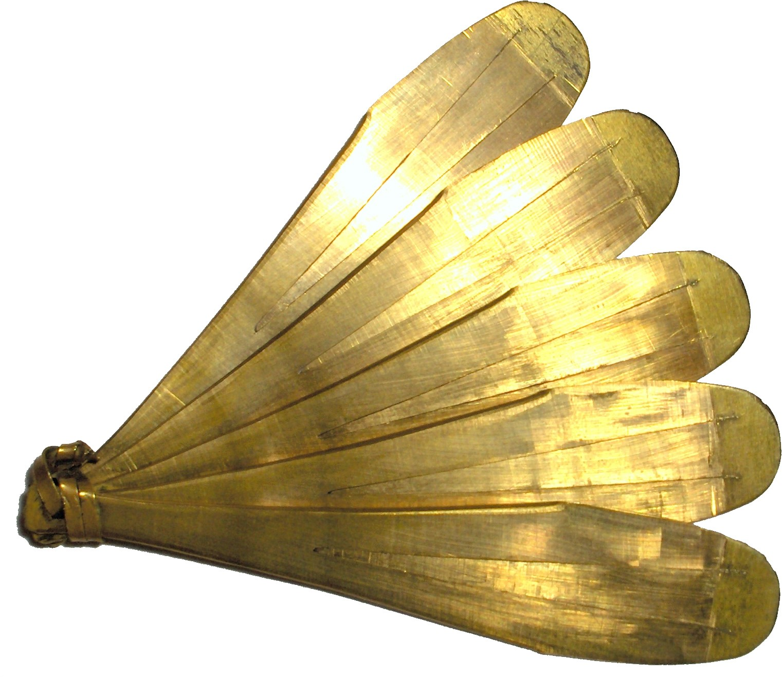 A Kouxian, a plucked idiophone (A Chinese brass musical instrument.)